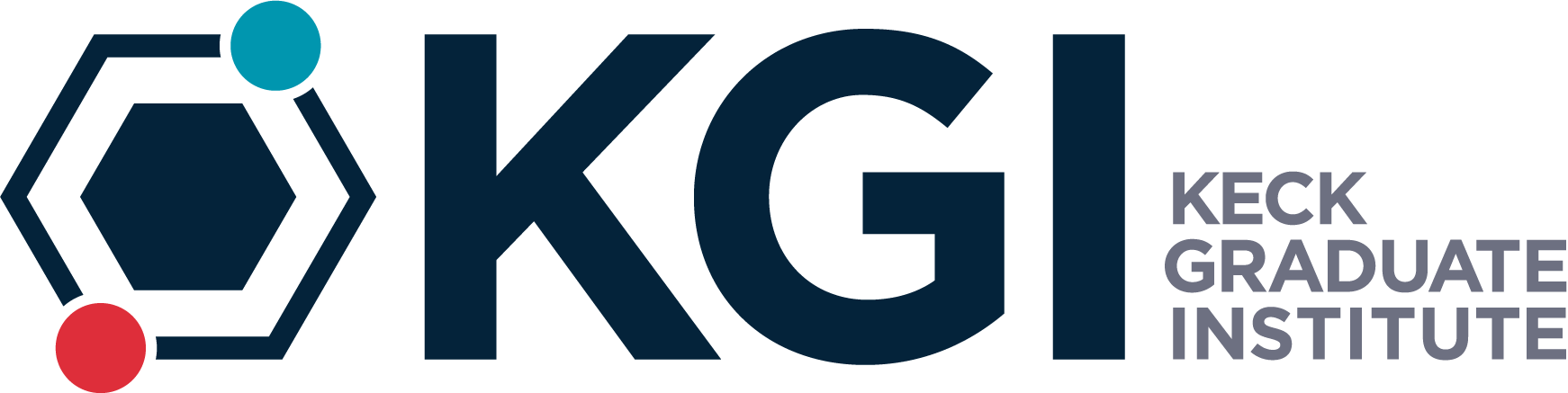 Keck Graduate Institute logo